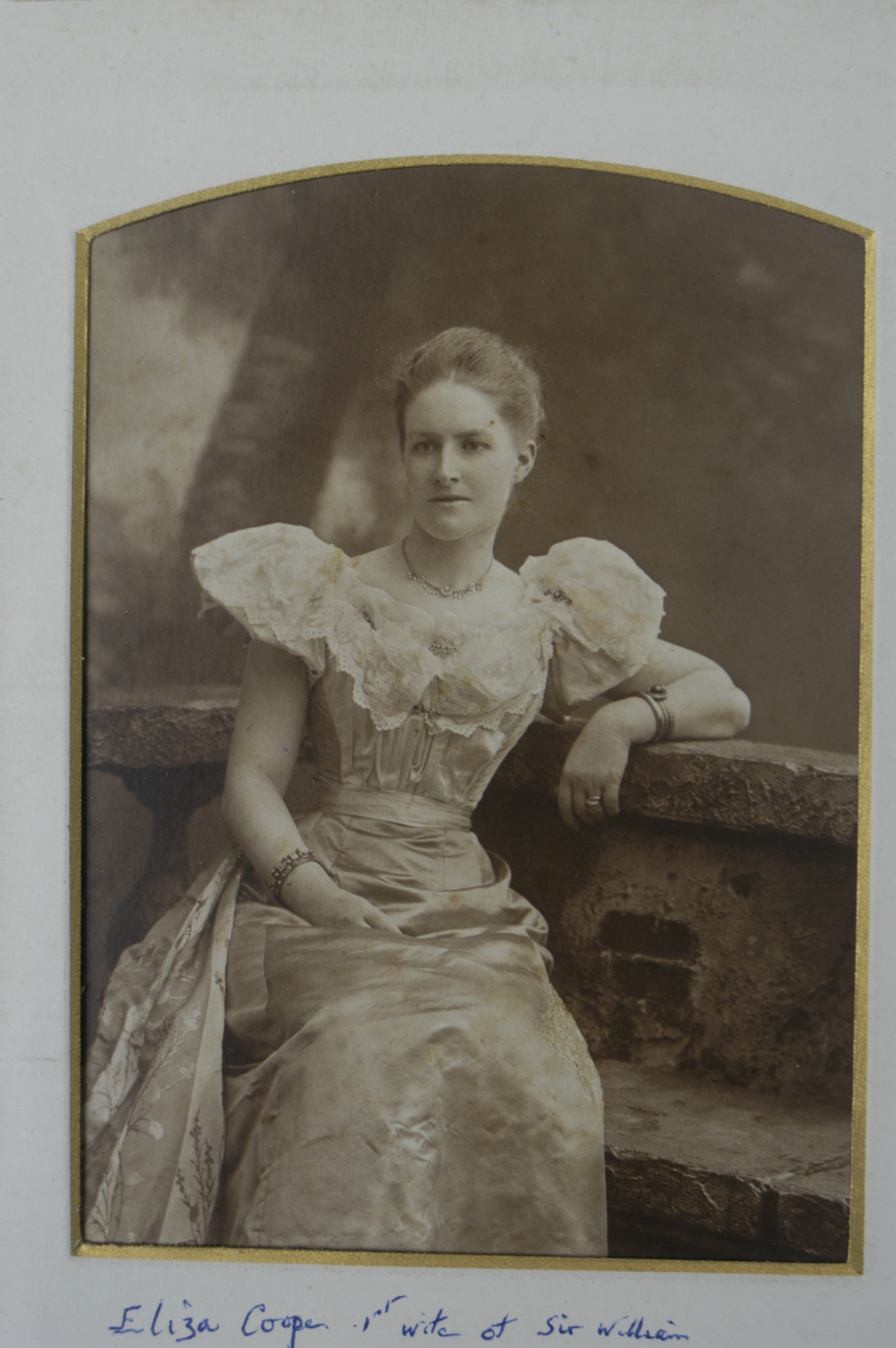 Photo (by me, R. de Salis, Rodolph (talk) 23:23, 17 August 2015 (UTC)) of a photo of Eliza Jesser Coope, 1867-1920, wife to Admiral William de Salis, probably in 1889.